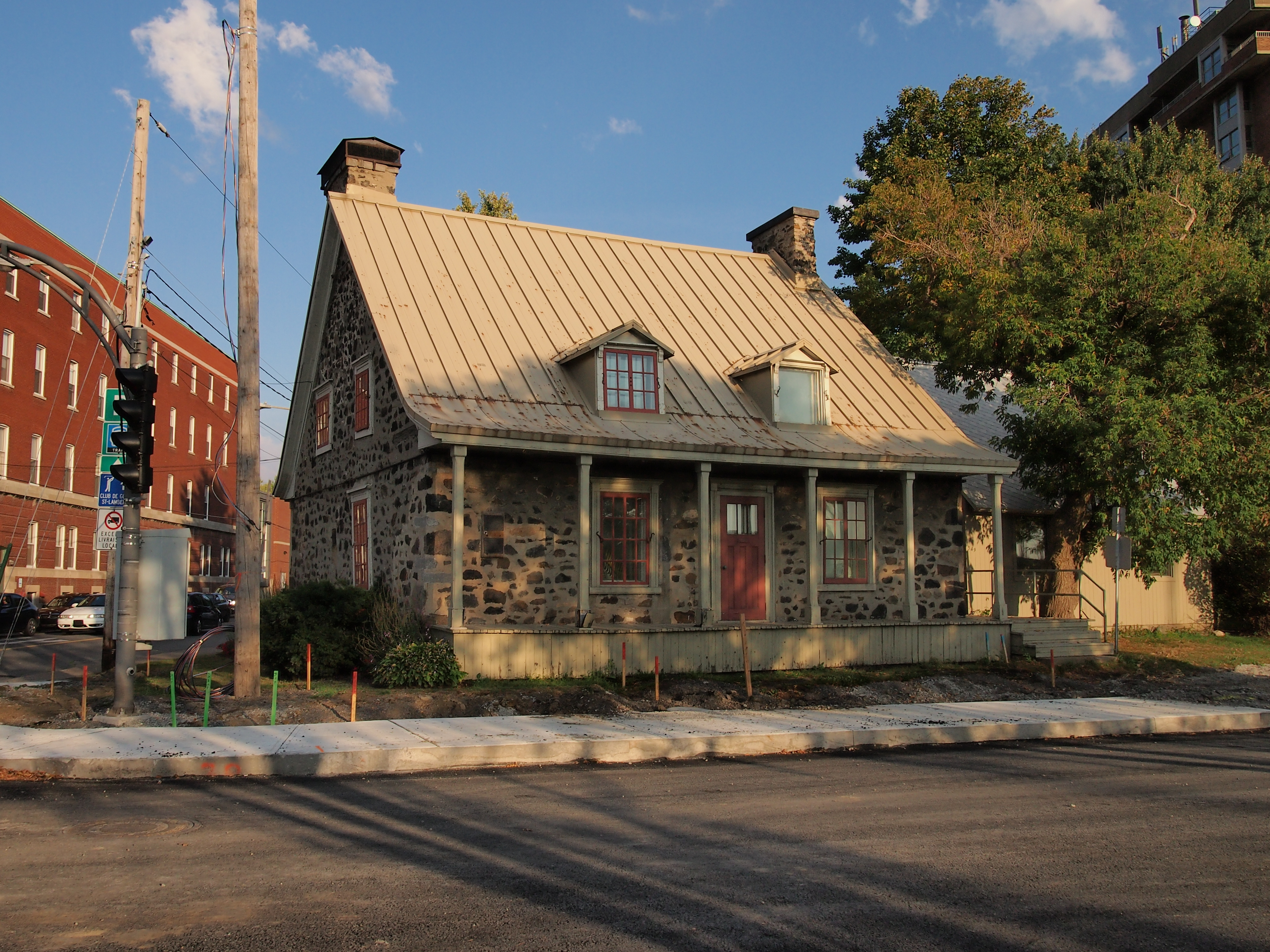 Maison Marcil in Saint-Lambert, seen from the north-west